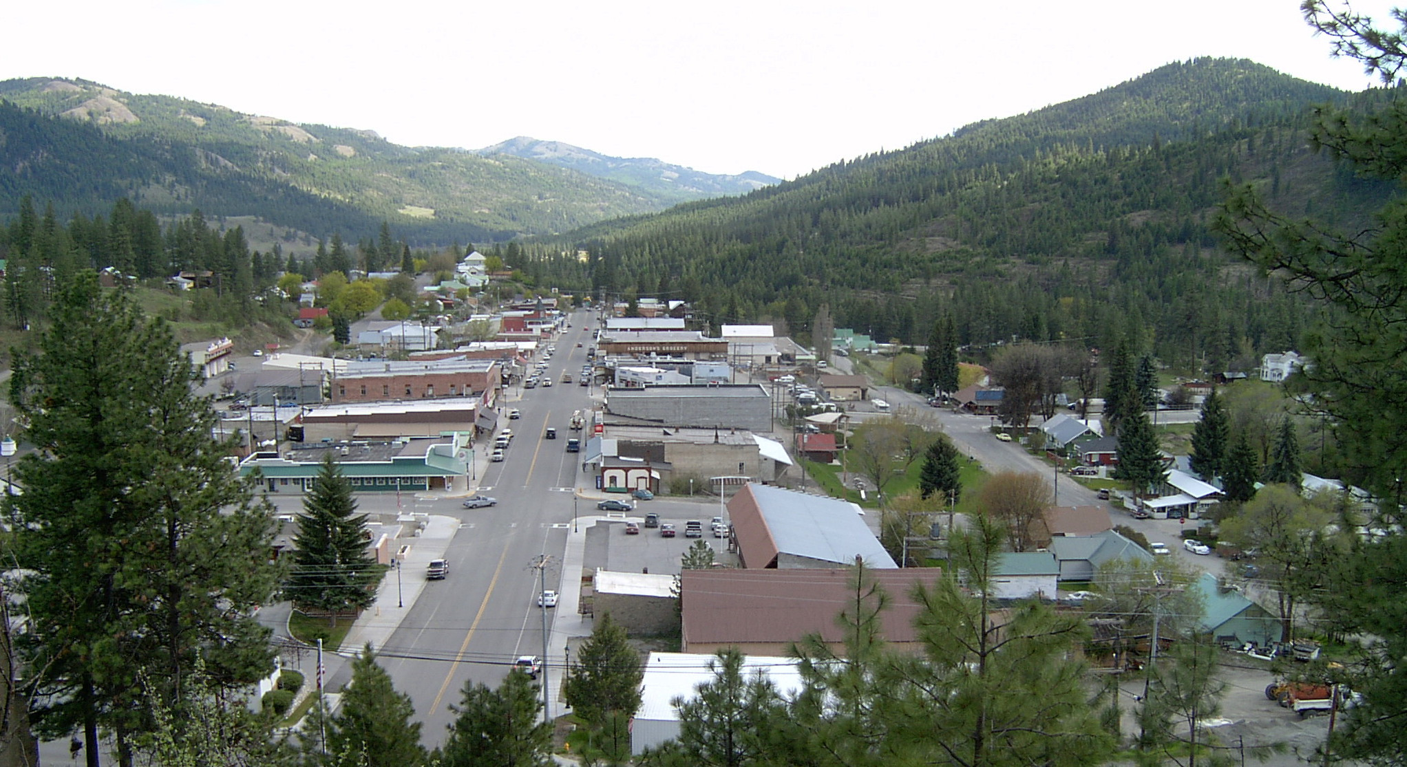 Looking South from Klondike Mountain down Clark Ave.